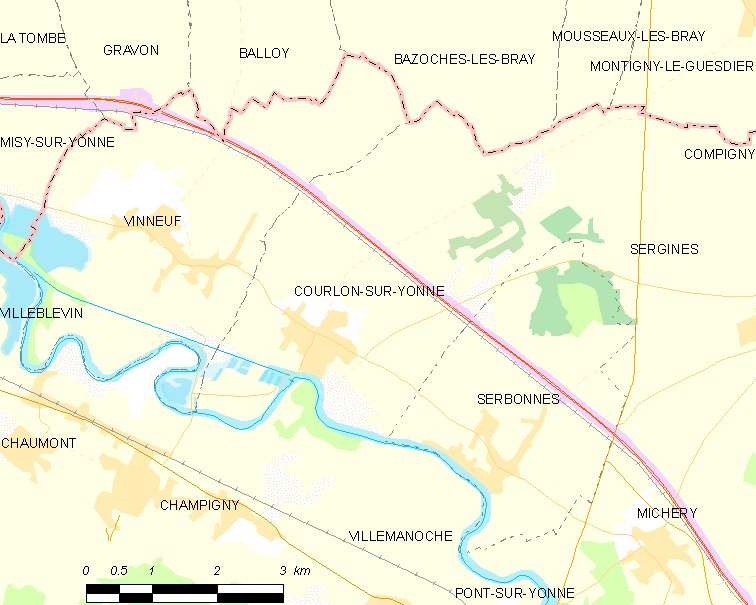 Map of French municipality Courlon-sur-Yonne